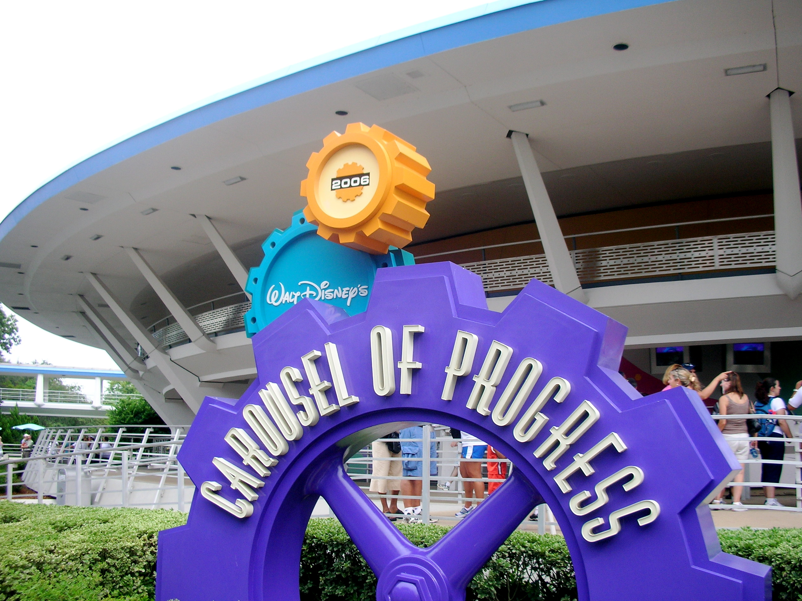 Walt Disney's Carousel of Progress in Tomorrowland at the Magic Kingdom in Walt Disney World, Florida, United States